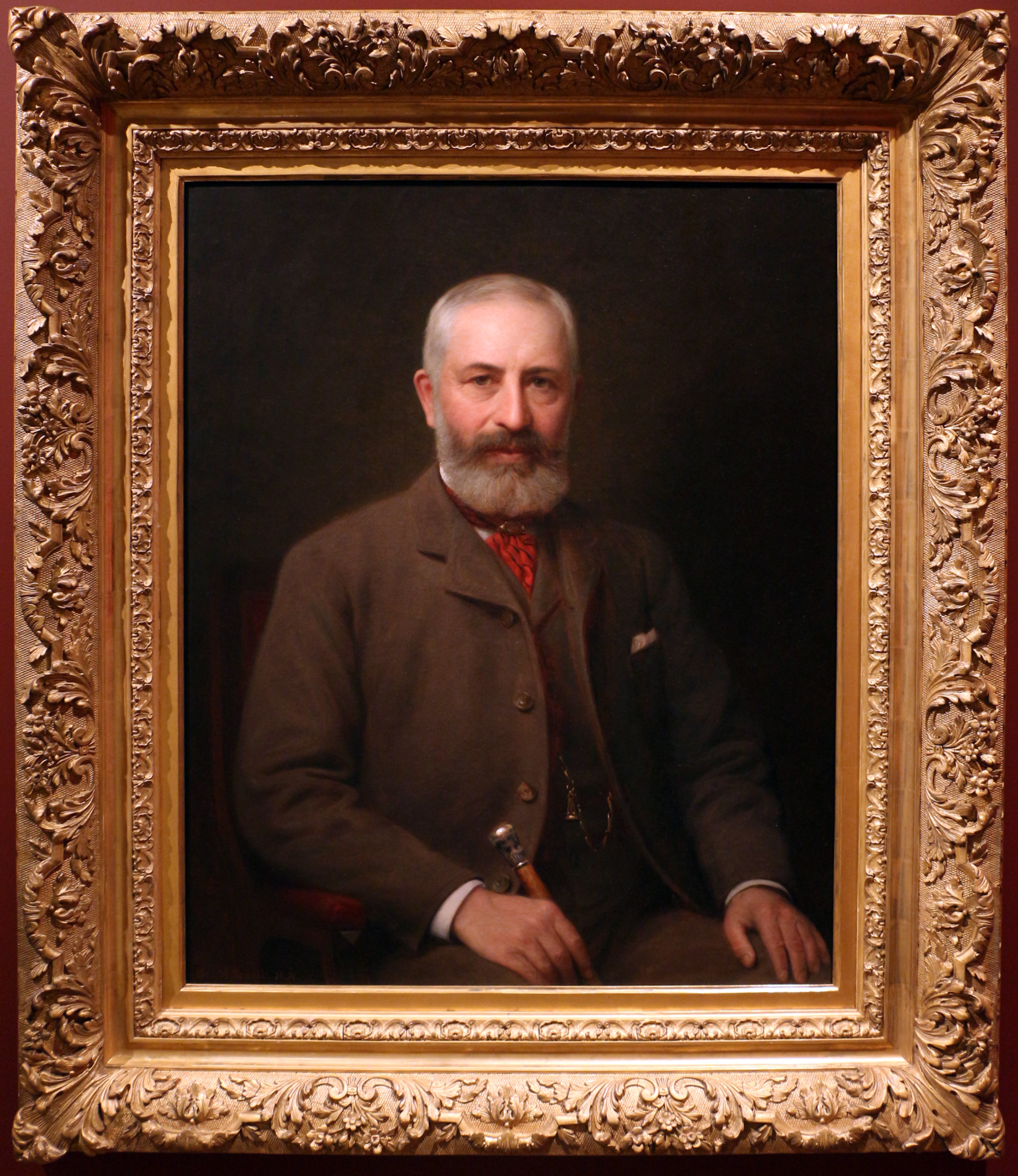 Paintings in the Milwaukee Art Museum